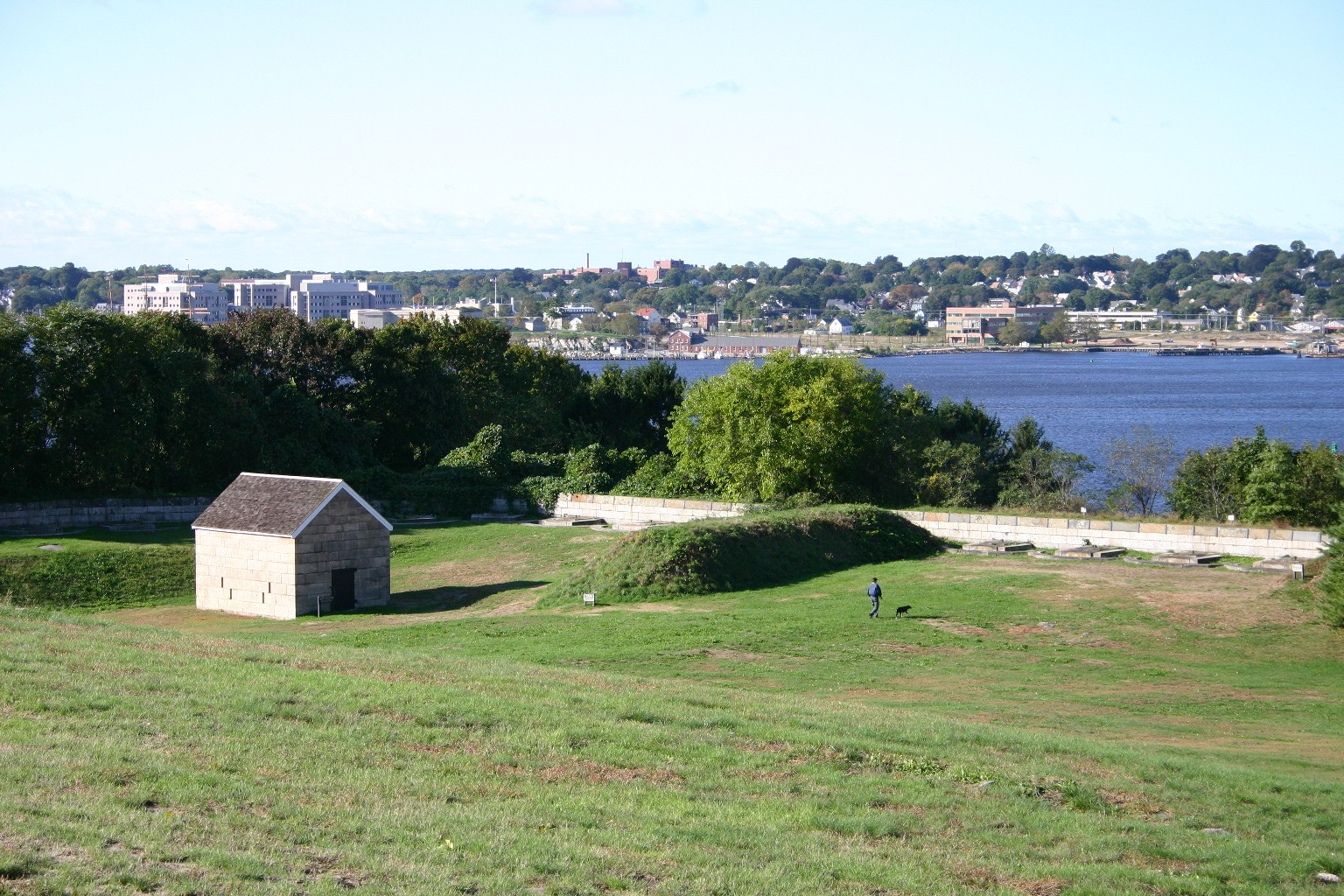 Lower battery at Fort Griswold